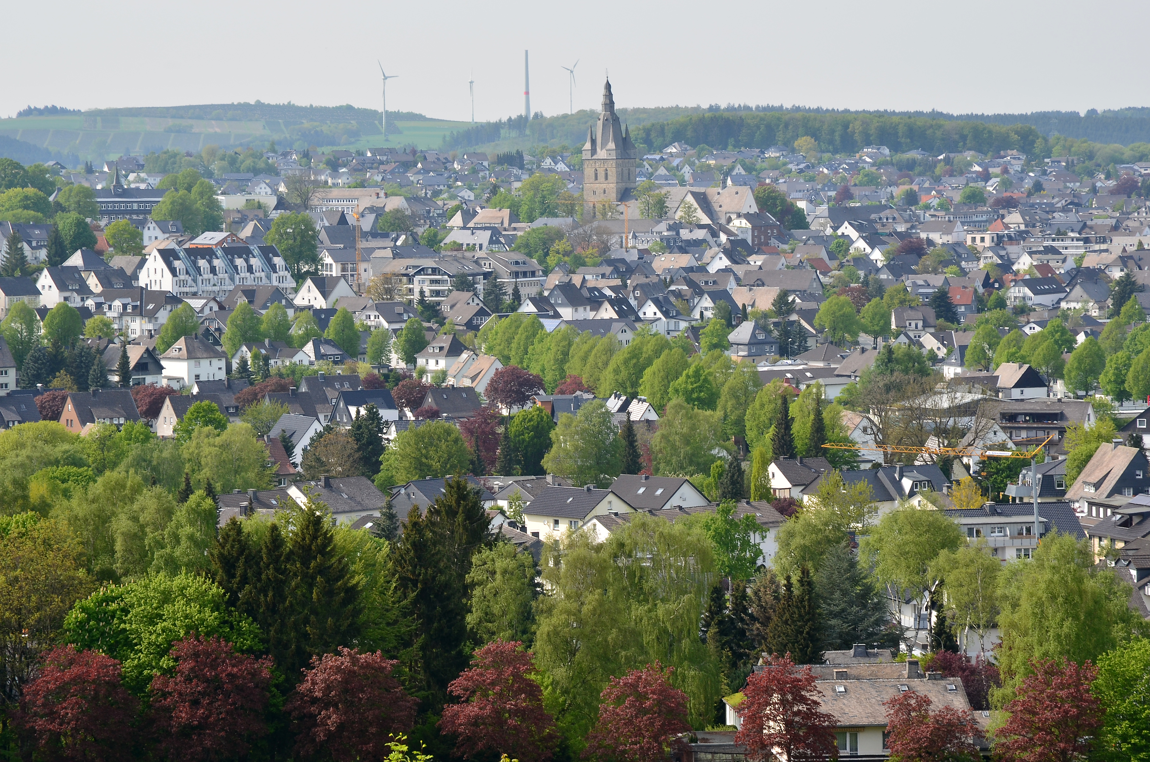 Brilon, overlooking the city from south to north, North Rhine Westphalia, Germany